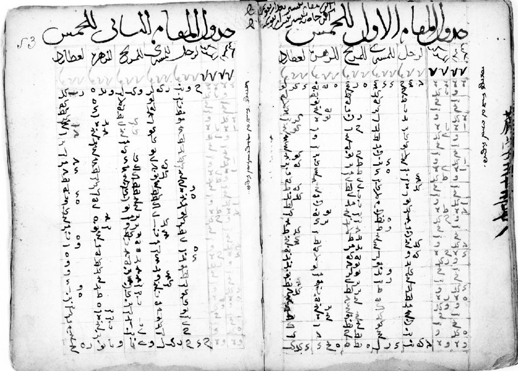 Arabic astronomical handbook (zij) by the Samarkandi astronomer Khwaja Ghazi al-Sanjufini. Called the Sanjufini Zij. Compiled in 1363 and dedicated to his Mongolian patron Prince Radna who was the Viceroy of Tibet stationed in Hezhou in Gansu Province. Prince Radna was a descendant of Kublai Khan who was interested in Islamic astronomy like Kublai Khan and Hulagu Khan. The handbook is notable for having Middle Mongolian glosses written in vertical Mongolian script in its margins. Middle Mongolian gloss. Note the words maqam (position) and istiqamad (straight) are Arabic. Folio 52 verso Uridu maqam un qajiun medekü (Finding the side of the early position). Folio 53 recto Qoyidu maqam un istiqamad medekü (Finding the straight of the late position). Kept in the Bibliothèque nationale de France. Public domain. Manuscript Arabe 6040. Time of composition is clearly indicated as 764 AH (1362-63 AD) at the beginning of the chapter of the eras. This is the year for which the lunar tables at the very end (folios 56-57) are calculated.